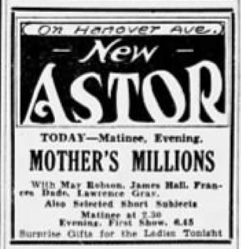 Astor Theater advertisement for the American film The She-Wolf (1931) under its alternative title Mother's Millions - 12 Dec. 1931 Morning Call Allentown PA